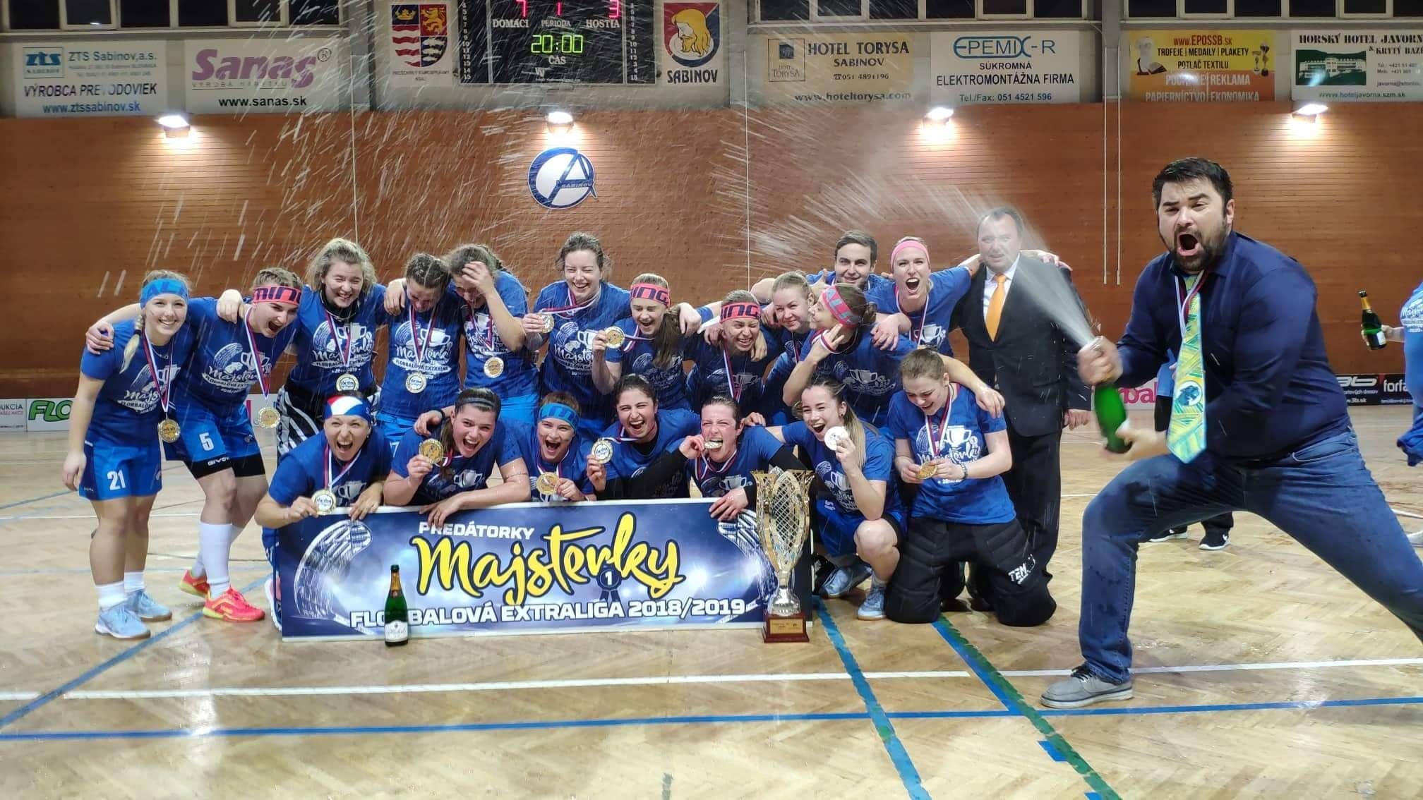 final game of slovak floorbal women extraleague